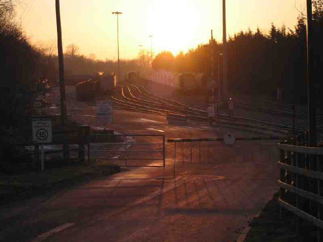 Torr Works Rail HeadDriving along the A361 you cannot miss the entrance to the largest quarry in europe (or so I'm told). This pic is the rail head where the Mendips Hills get carted of for something or other. The railway line goes under the road into the Torr Works.